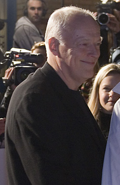 David Gilmour and family